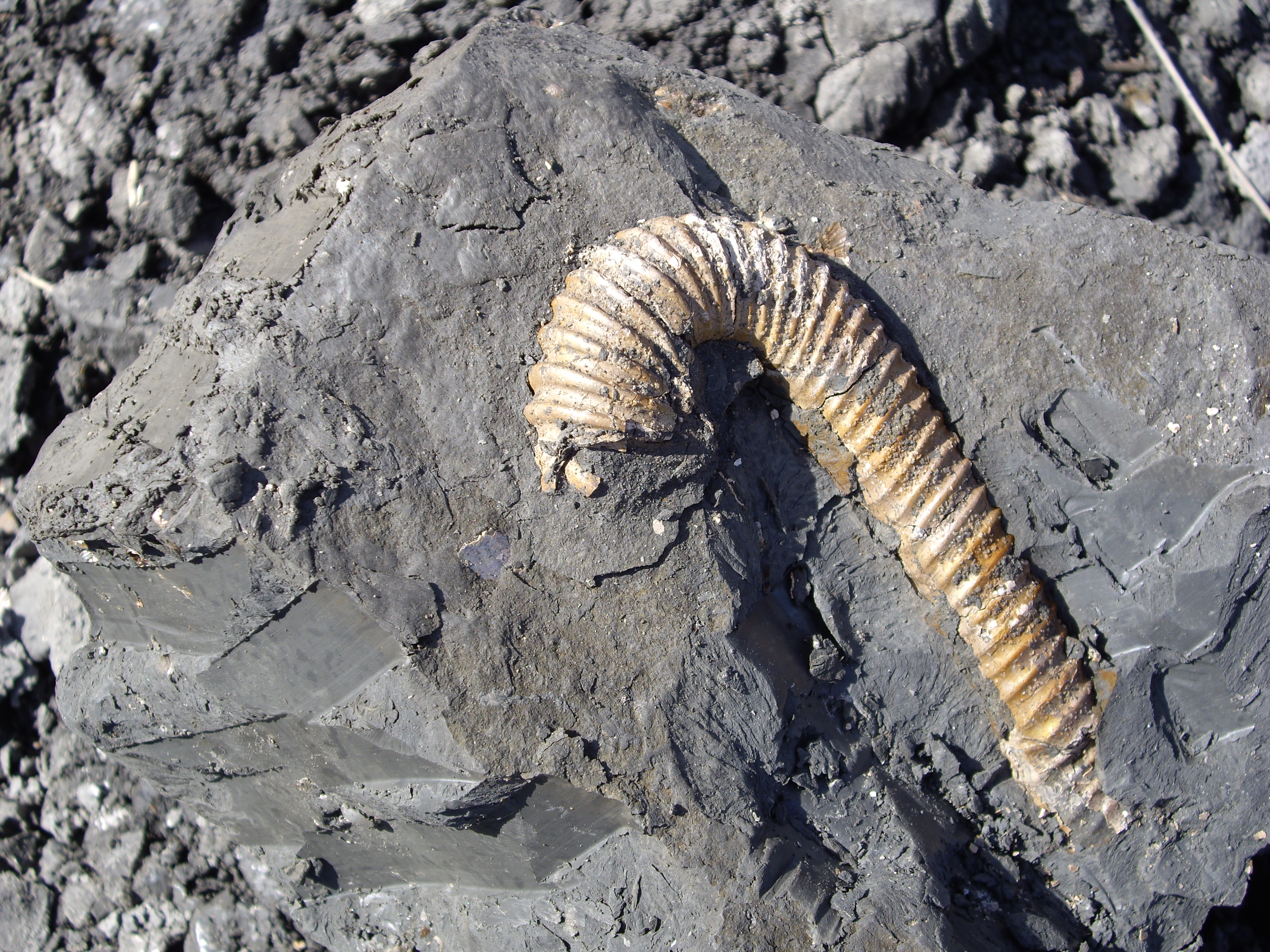 Hamitidae fossil in Gault Clay in Wear Bay in Folkestone, Kent, England, UK.